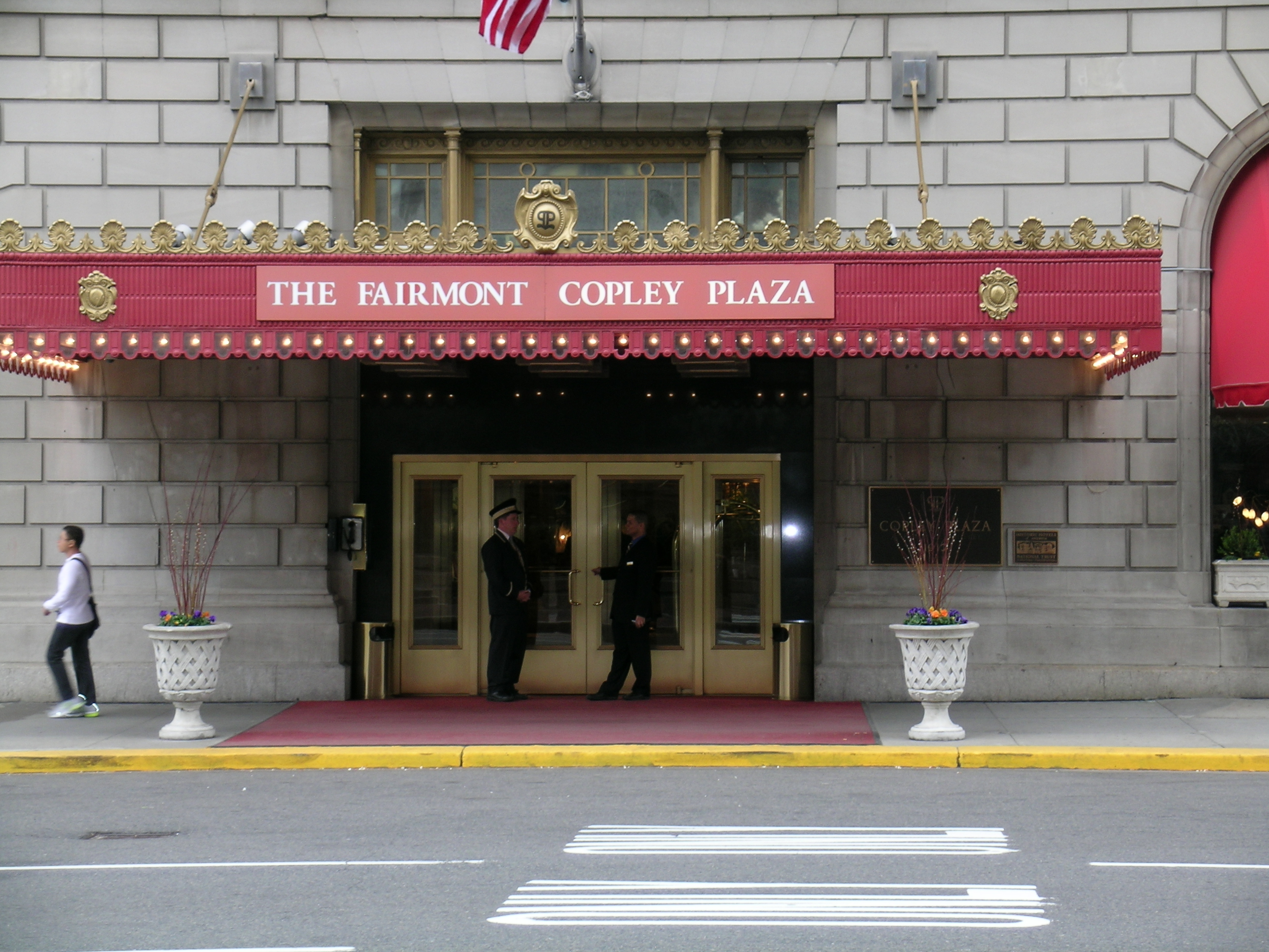 Fairmont Copley Plaza Hotel in Copley Square, Boston, Massachusetts. April 2008 photo by John Stephen Dwyer.